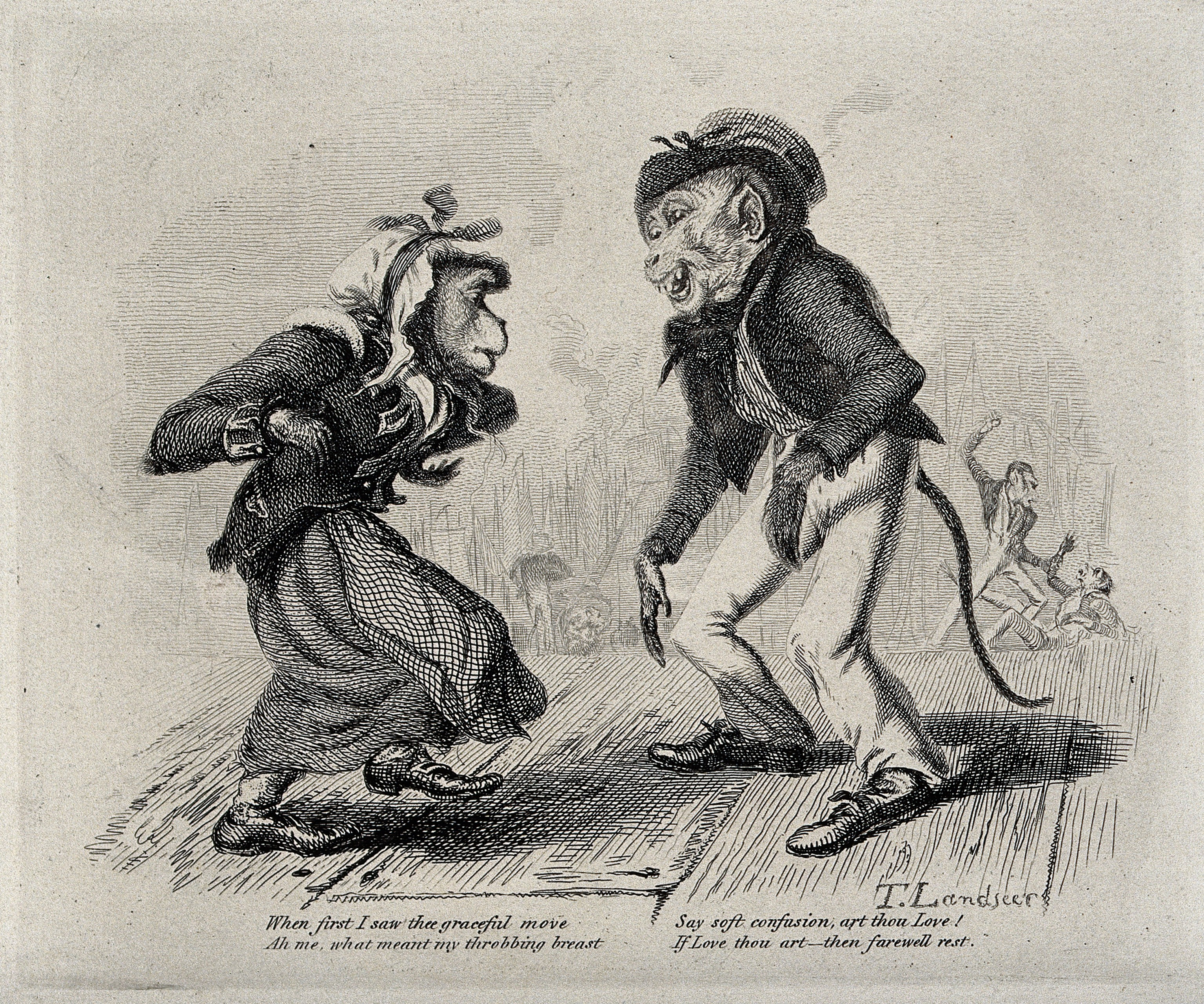 A male and a female monkey, both dressed in human cloothing, standing on a dancefloor. Etching by T. Landseer. Iconographic Collections Keywords: Thomas Landseer